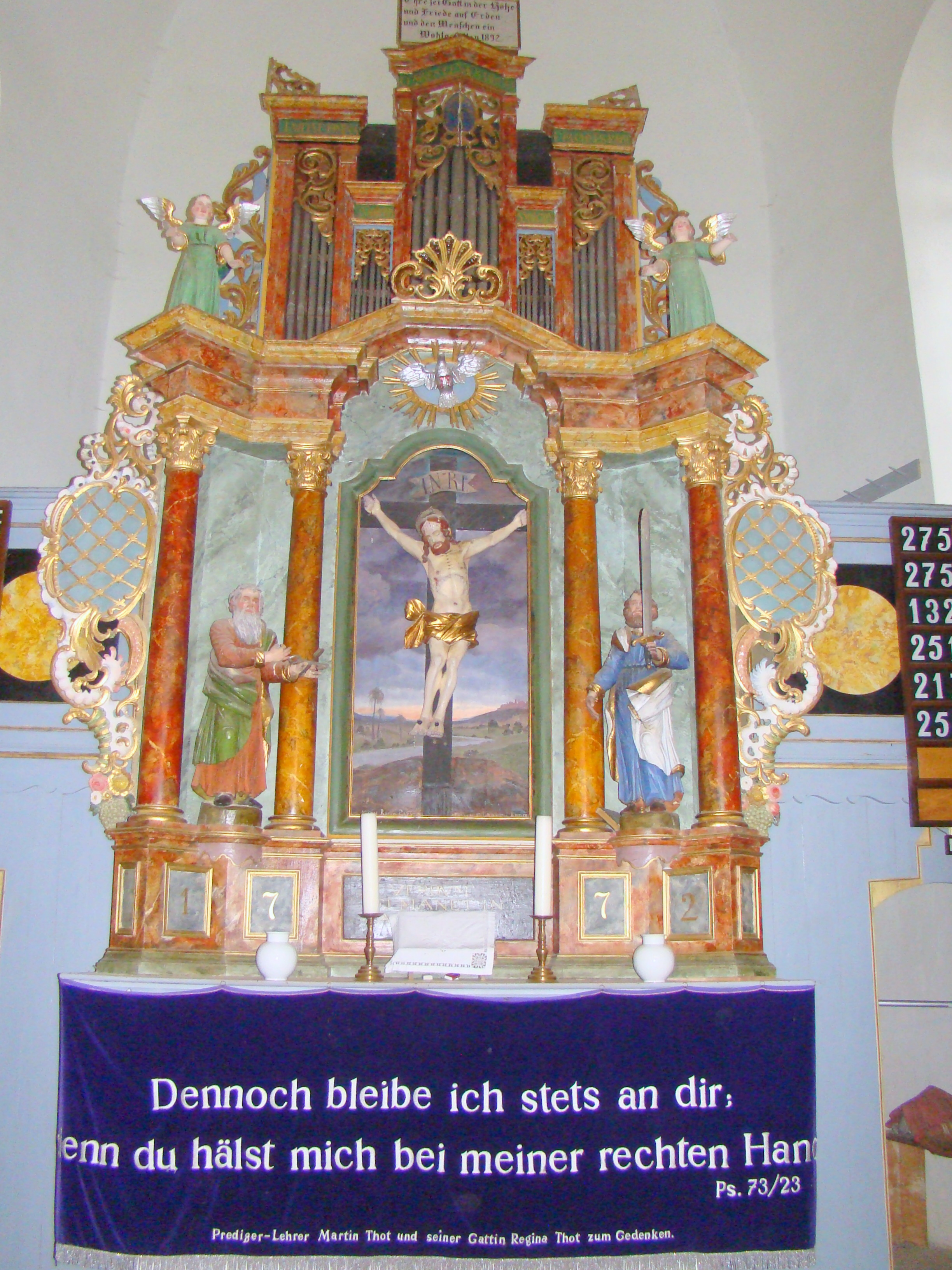 Fortified church in Ticușu Vechi, Brașov County, Romania